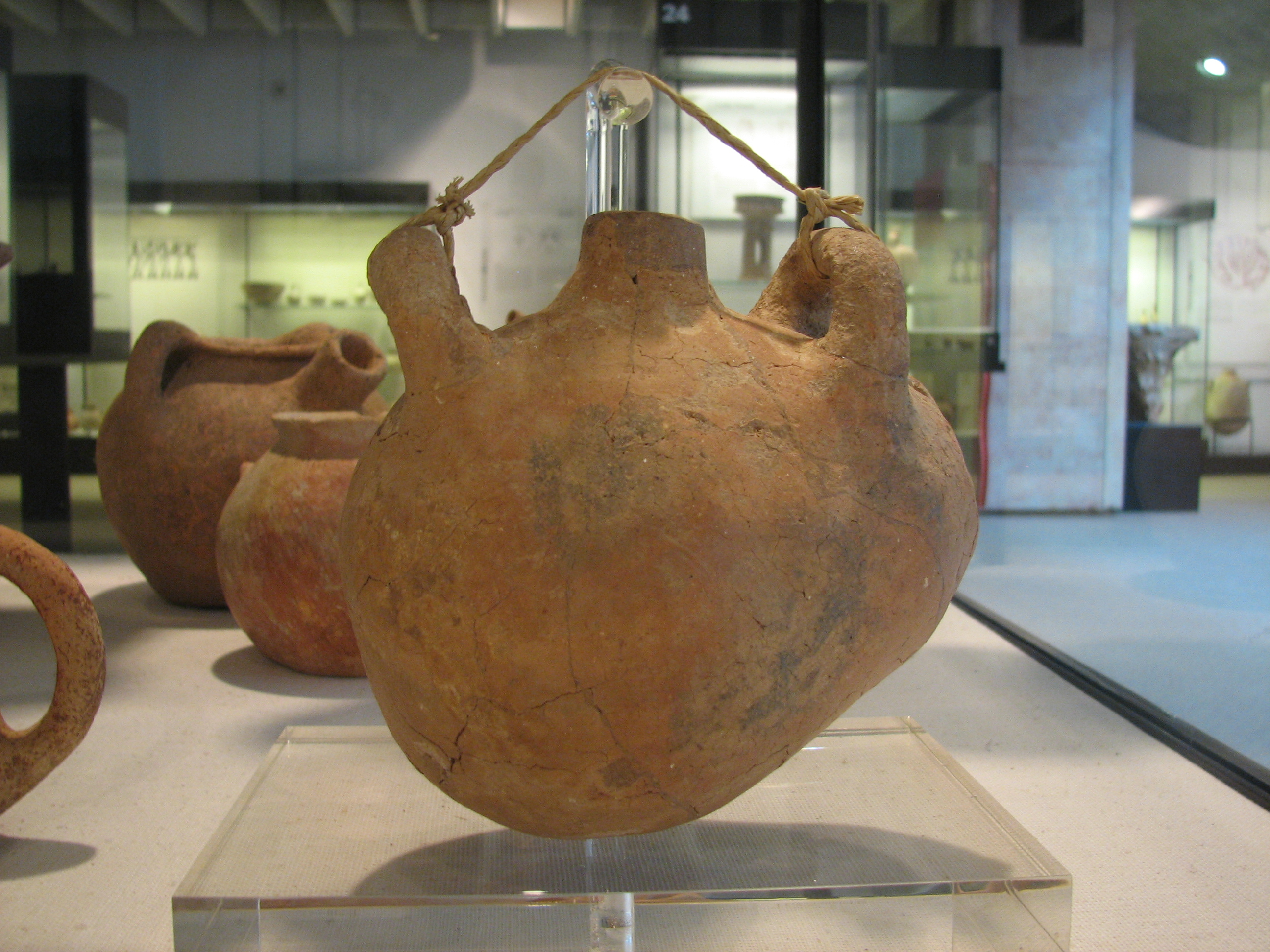 Smaal Chalcolithic churn – Beersheba Culture – found in Israel - Hect Museom Haifa